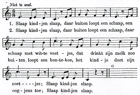 Illustration (sheet music) in the Dutch children's song book "Nederlandsche baker- en kinderrijmen", gathered together by J. van Vloten (3rd print, 1874). Traditional children's song Slaap kindje slaap.